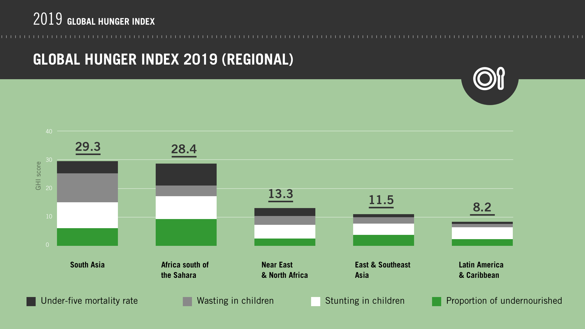 2019 GHI Scores with Contribution of Components